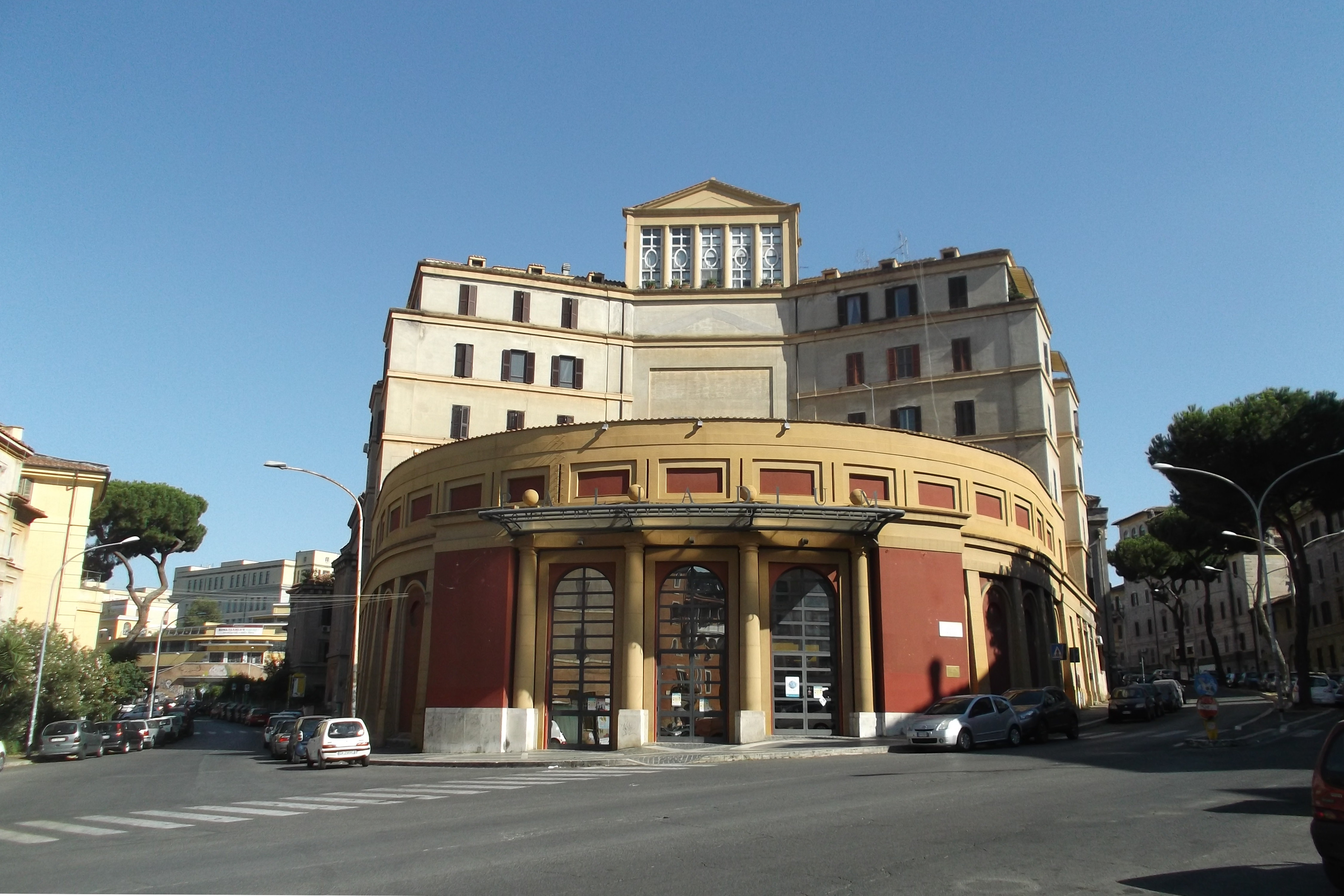 Teatro Palladium in Rome. It is operated by Università Roma Tre.